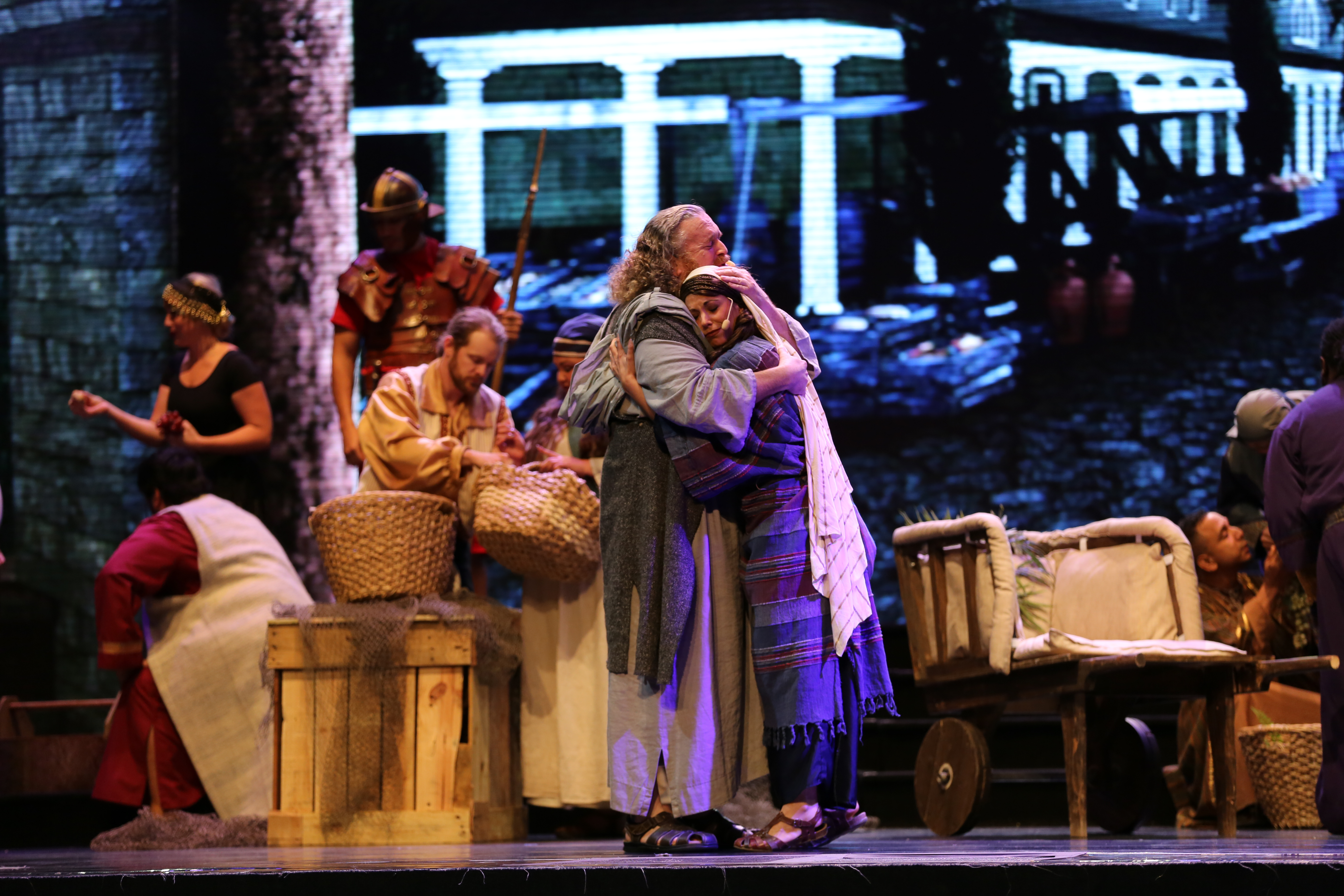 image from the show God with Us at The Holy Land Experience